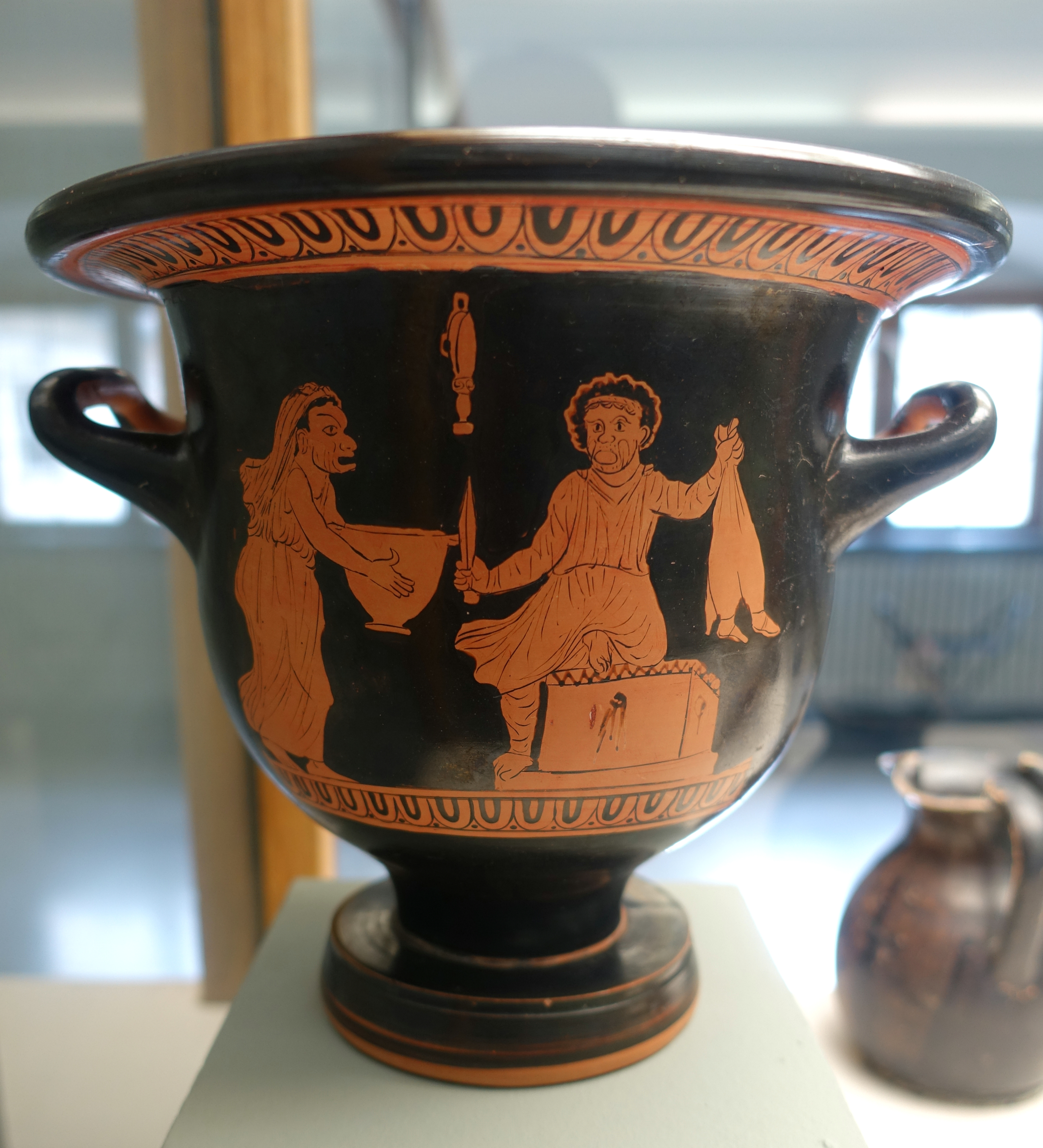 Exhibit in the Martin von Wagner Museum - Würzburg, Germany.